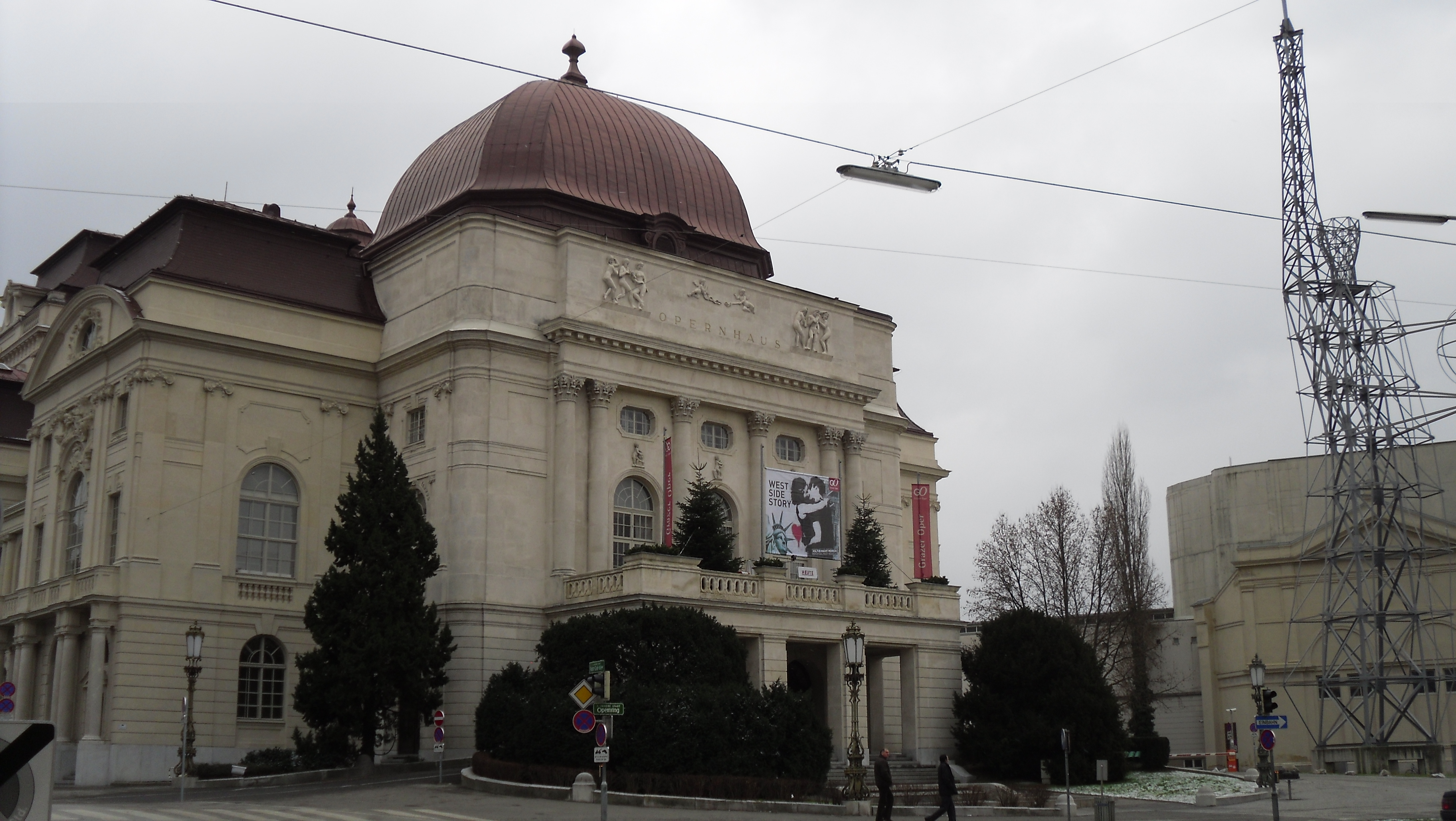 Oper-House Graz/Styria/Austria